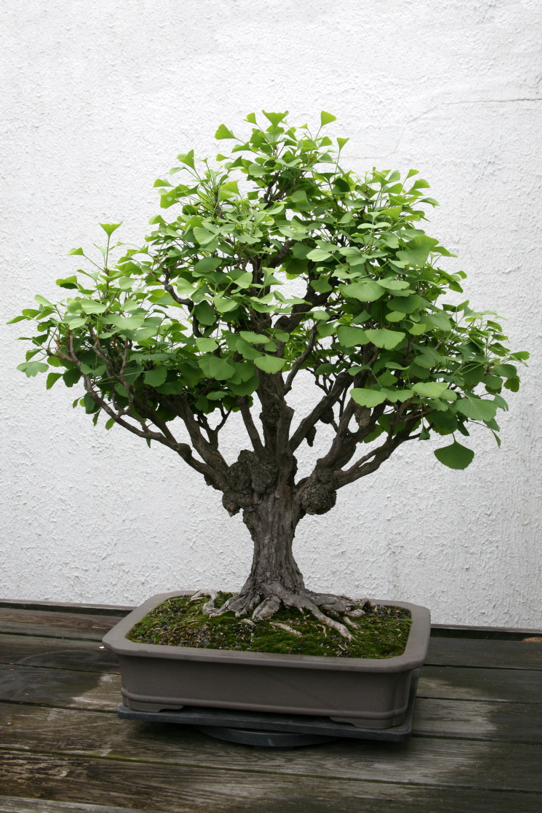 In training since 1926